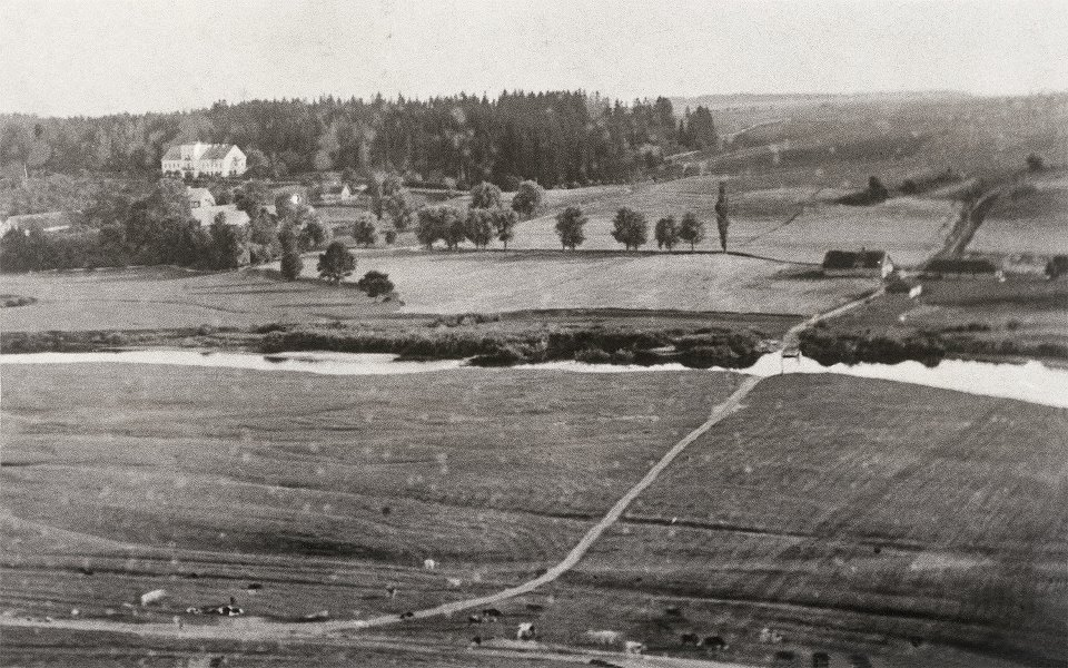 Daugirdava manor and Daugirdas lands near river Dubysa. Circa 1900. Author unknown.